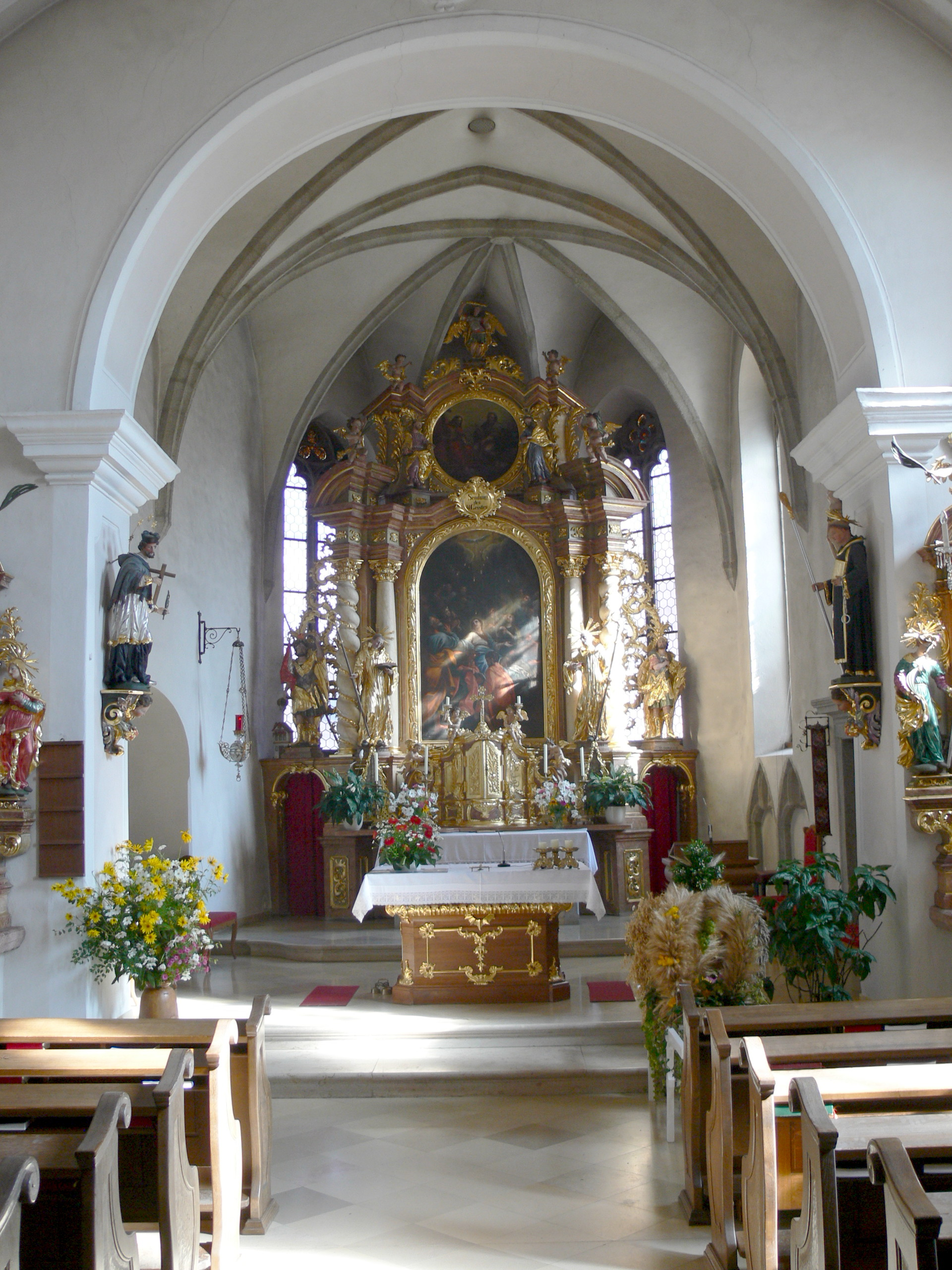 Parish church Saint Othmar in Kirchberg. Interior